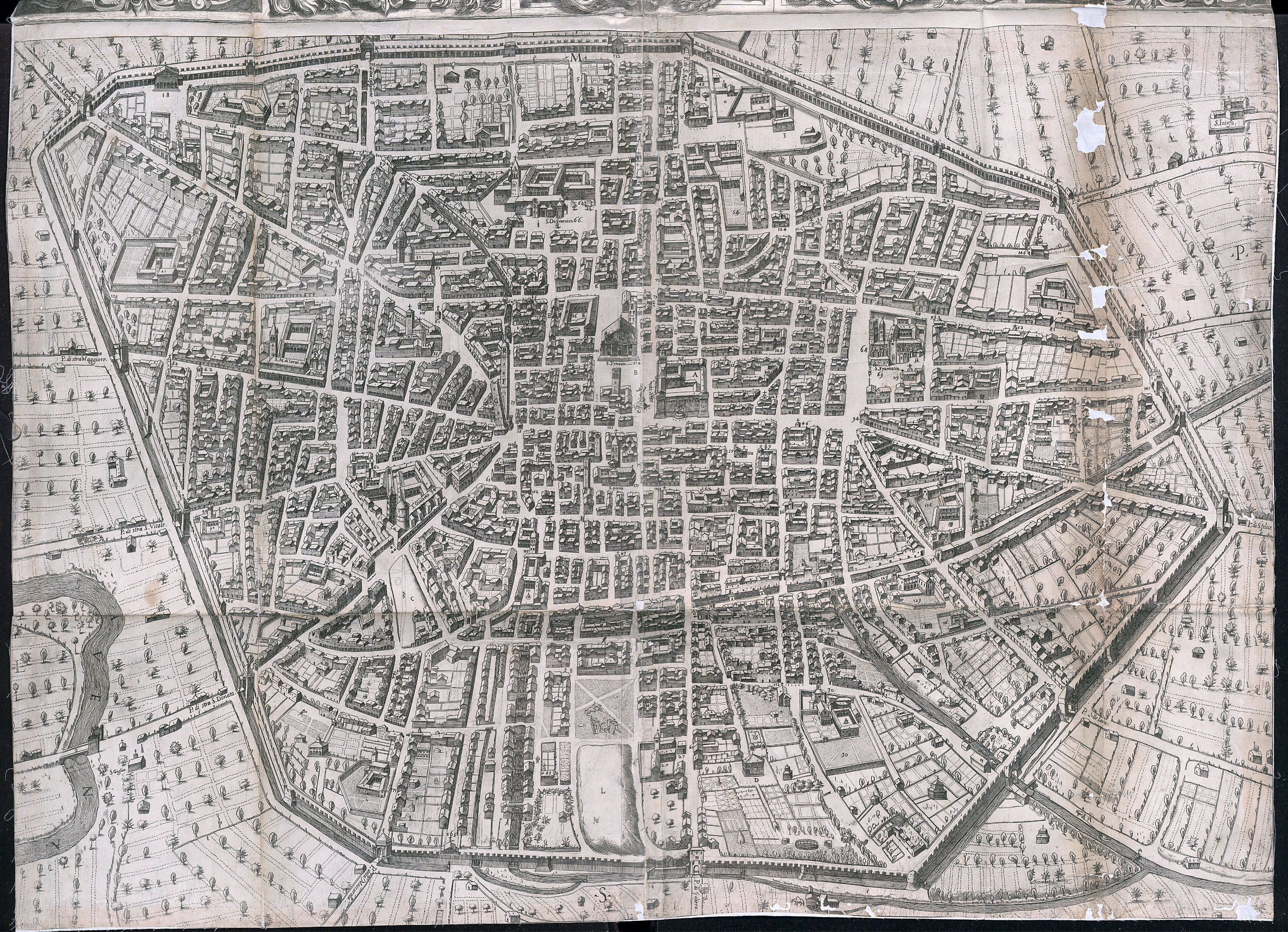 Bononia docet - Mater studiorum; Kupferstich, 1581